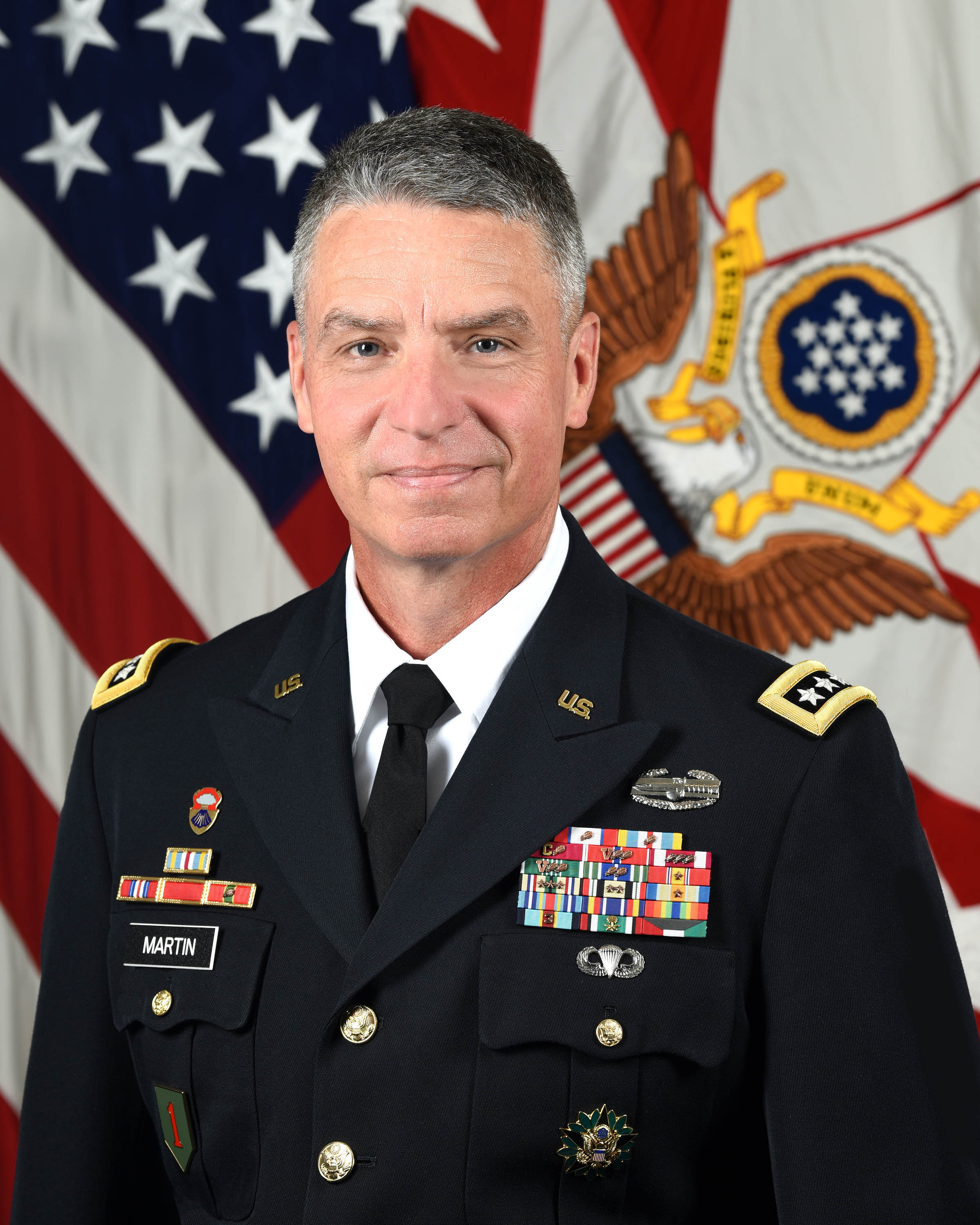 U.S. Army General Joseph M. Martin, 37th Vice Chief of Staff, poses for his official portrait in the Army portrait studio at the Pentagon in Arlington, Va., July 22, 2019. (U.S. Army photo by Monica King)